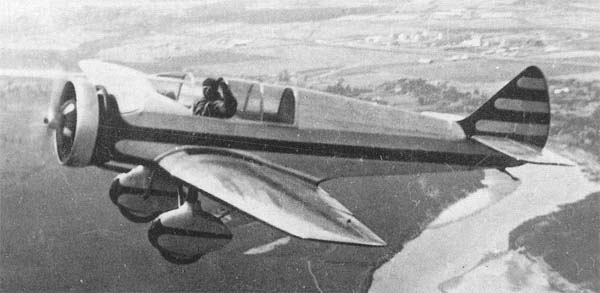 Yakovlev AIR-9bis, 1930's Soviet sports aircraft prototype in flight.